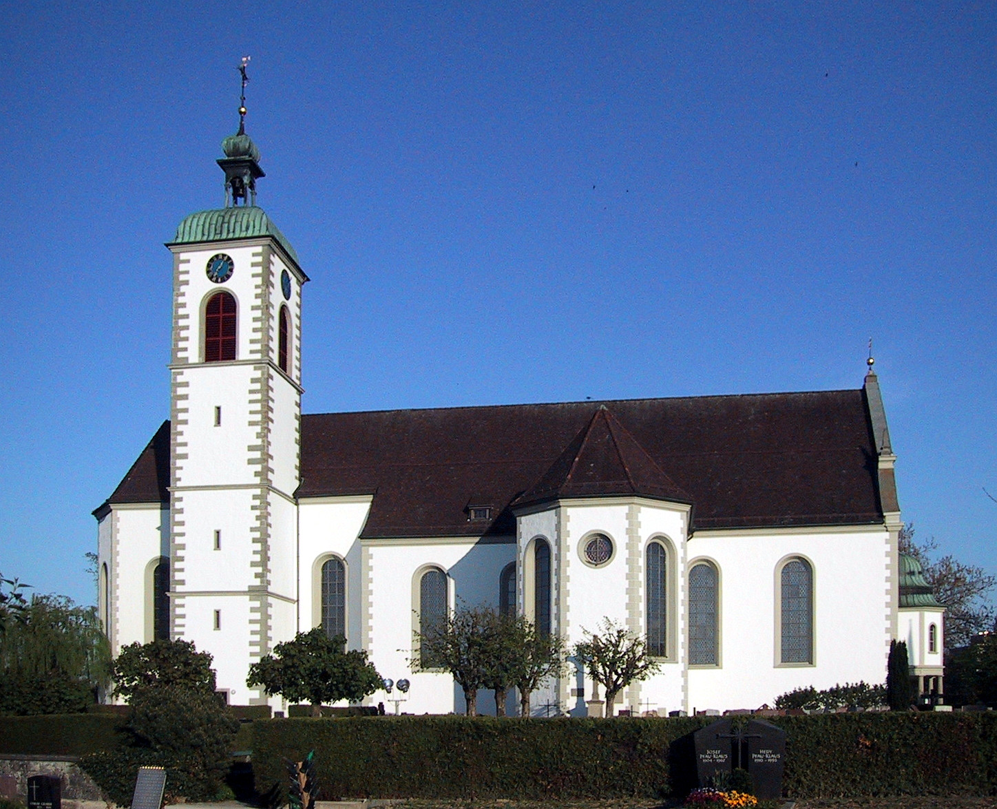 Picture taken on May 1 2005, Church of Saint Ulrich and Afra in Kreuzlingen.